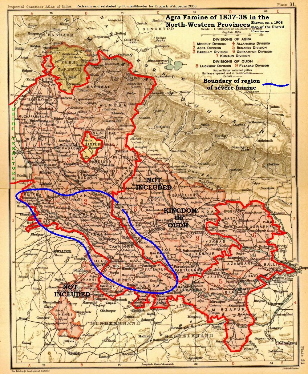 Map of North-Western Provinces shown on that of the United Provinces from personal copy of the Imperial Gazetteer of India, volume 25 (Atlas), 1907. Scanned, labeled, famine region drawn, resized and uploaded by Fowler&fowler«Talk» 23:31, 19 June 2008 (UTC)